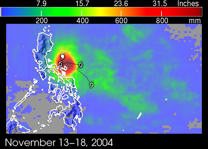 Partial rainfall totals from Typhoon Muifa.